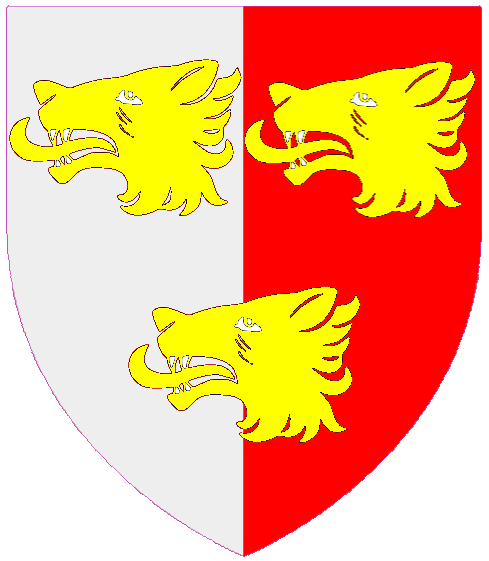 Shield of arms of The Lord Dunalley